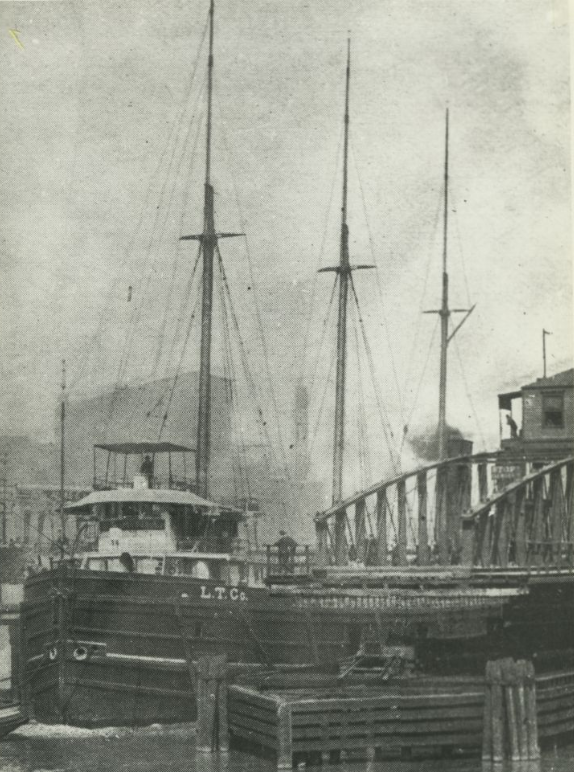 The steamer Florida in Chicago circa 1890